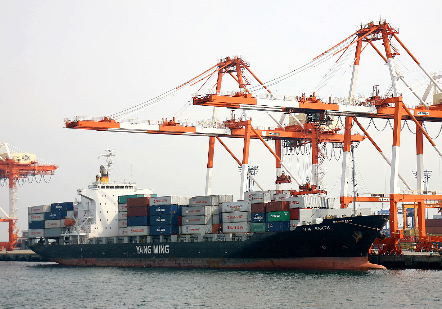 Container ship YM Earth, Port of Yokohama